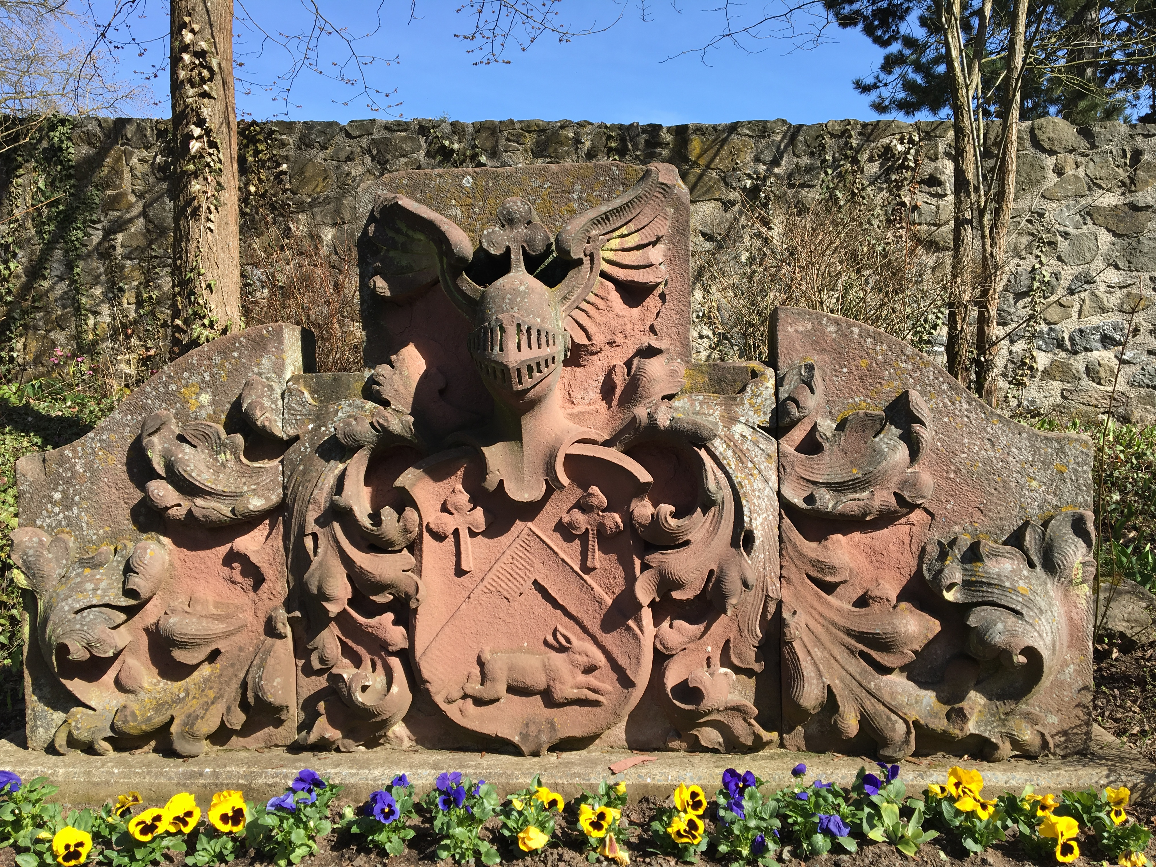 A jumping hare in the coat of arms decorated the capitals of the townvilla of the industrial family Haas in Dillenburg, Hindenburgstrasse. Was also led by the family in Sinn, Hesse.